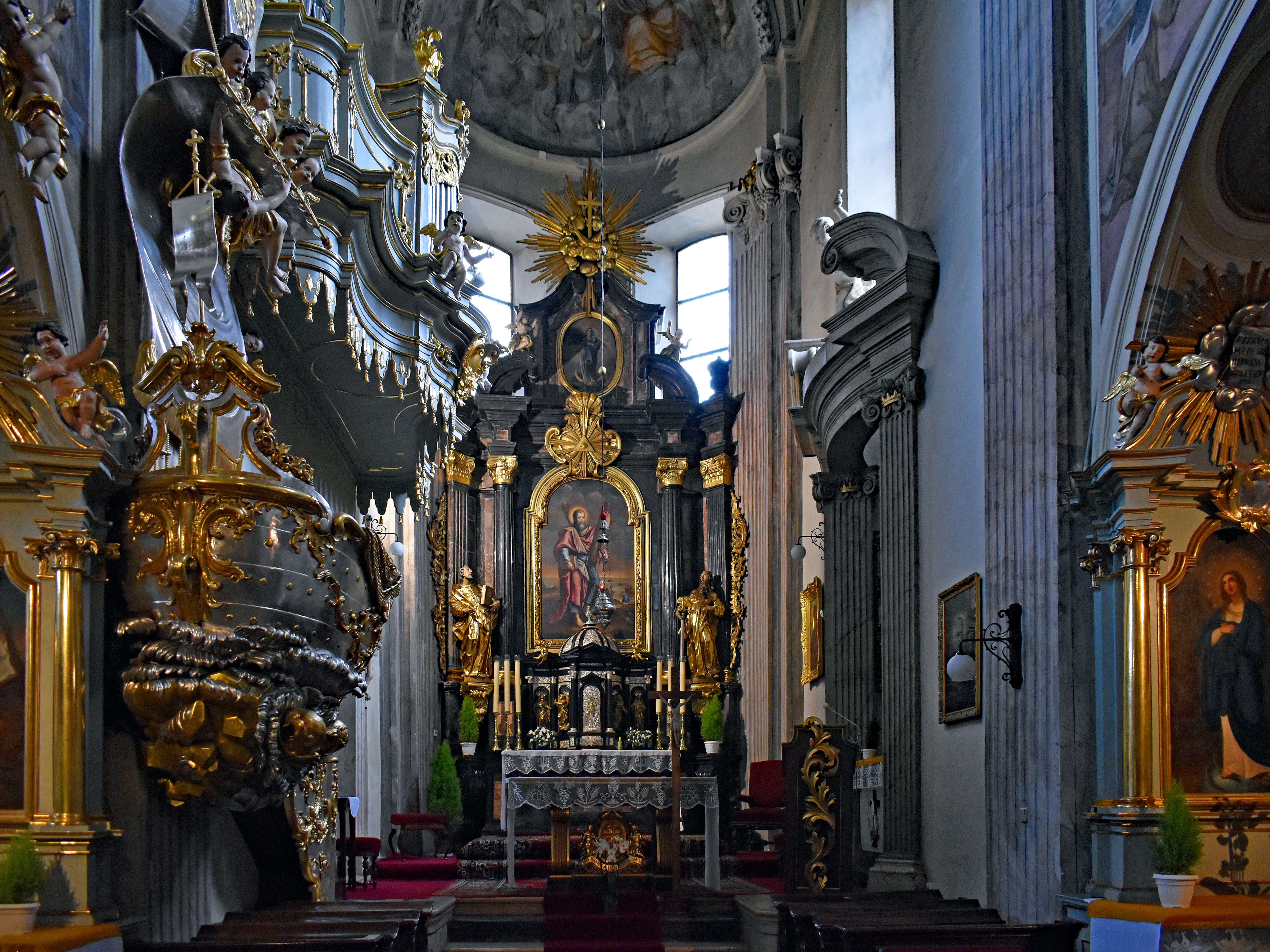 Church of St Andrew (interior), 56 Grodzka street, Old Town, Krakow, Poland